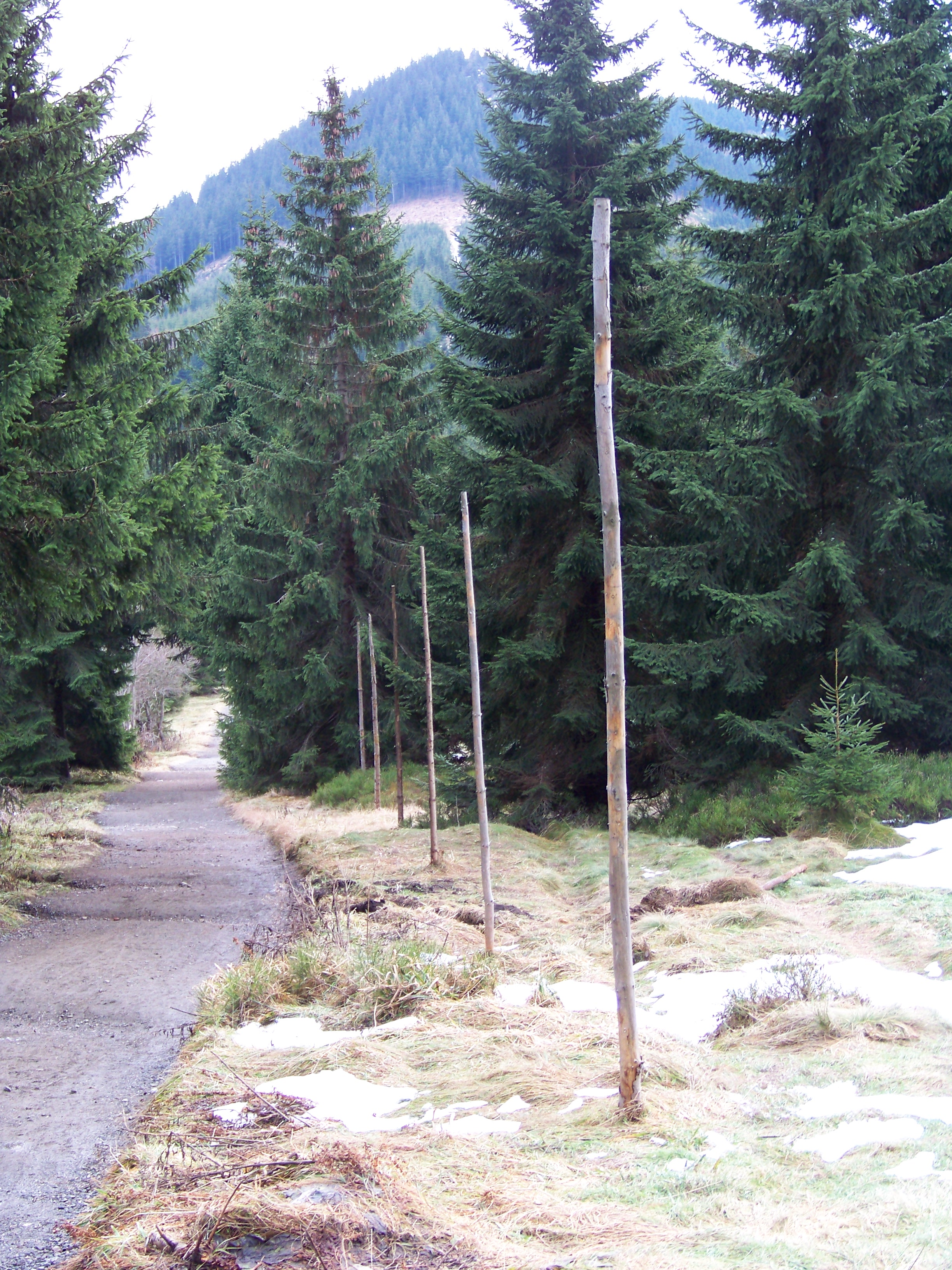 Rokytnice nad Jizerou-Rokytno, Semily District, Liberec Region, the Czech Republic. Pole marking near Dvoračky.